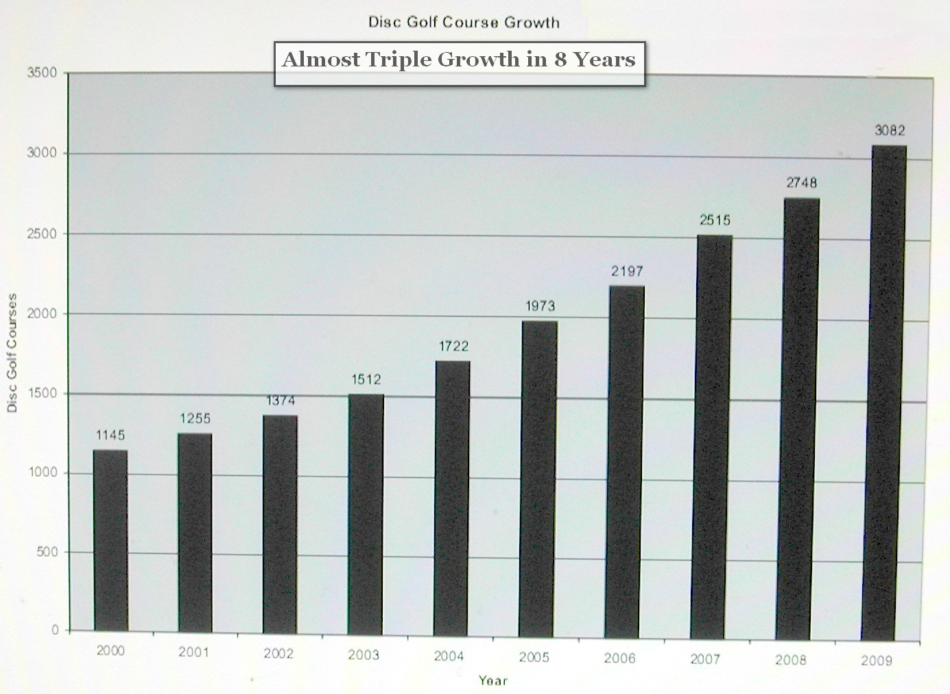 Number of Disc Golf Courses in the USA almost triple in 8 years